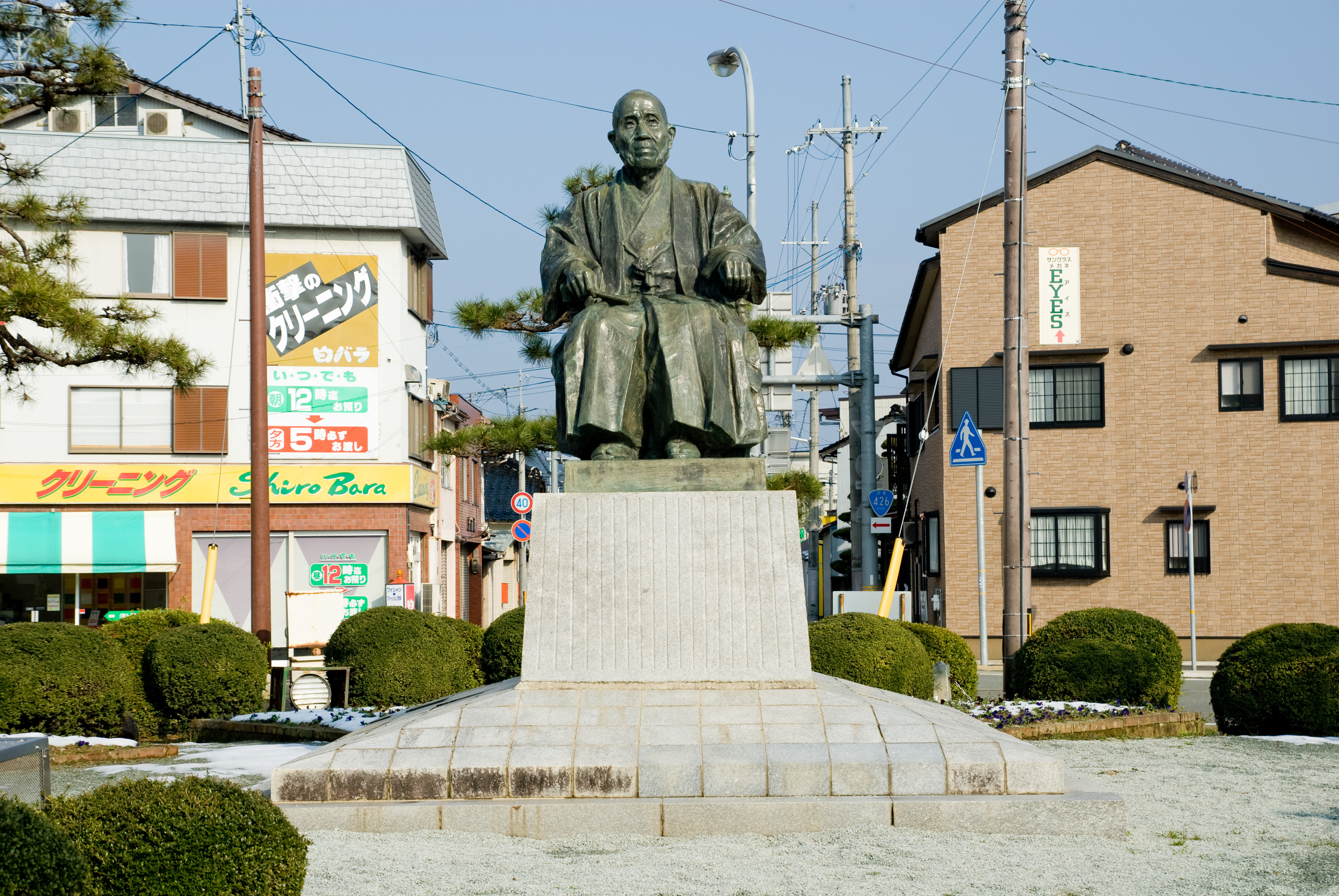 TanezoNakae of bronze statue in Kotobuki rotary Toyooka Hyogo, Japan.